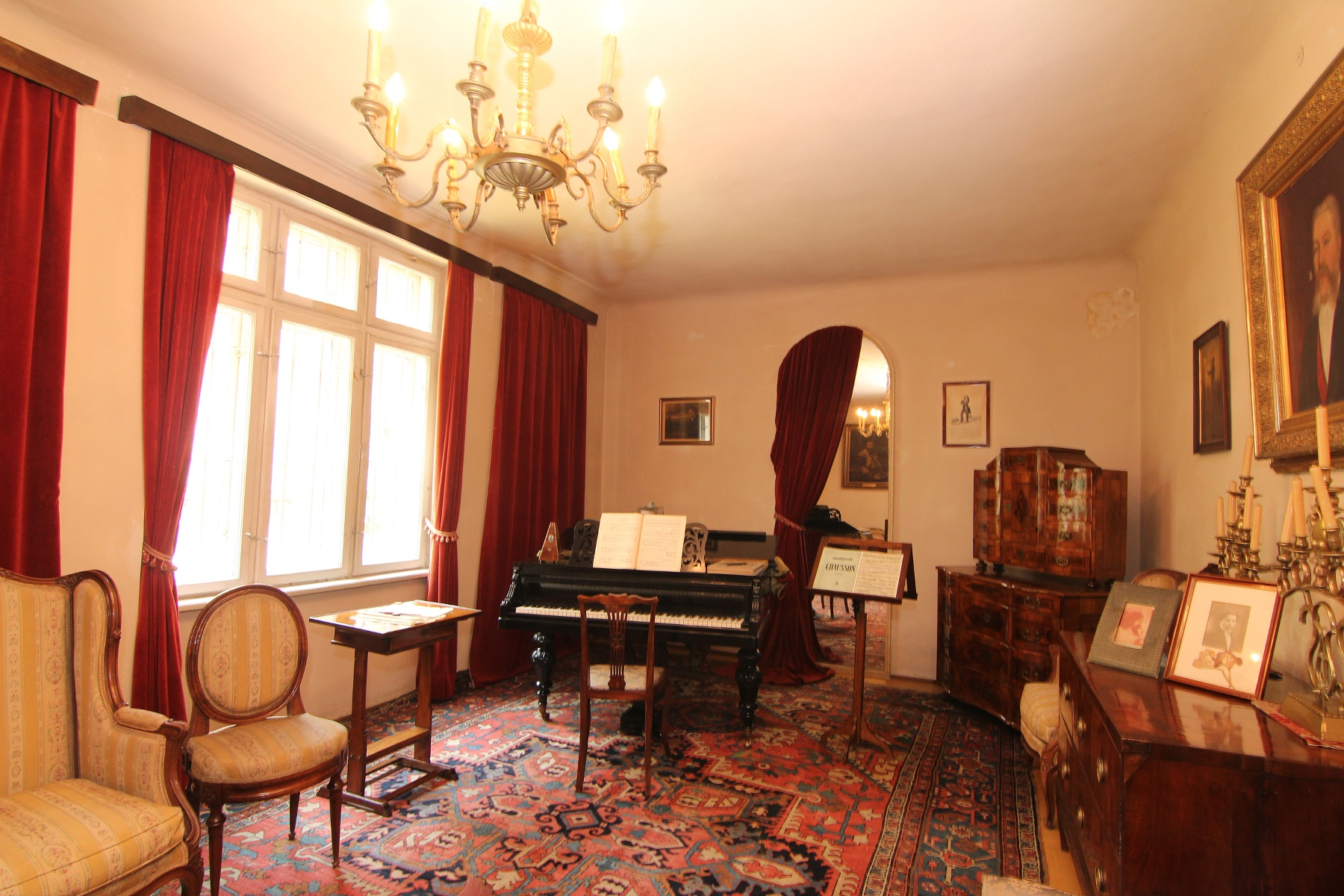 Music room of the Memorial House of George Enescu in BucharestRomână: Camera de muzică din casa memoriala George Enescu din București